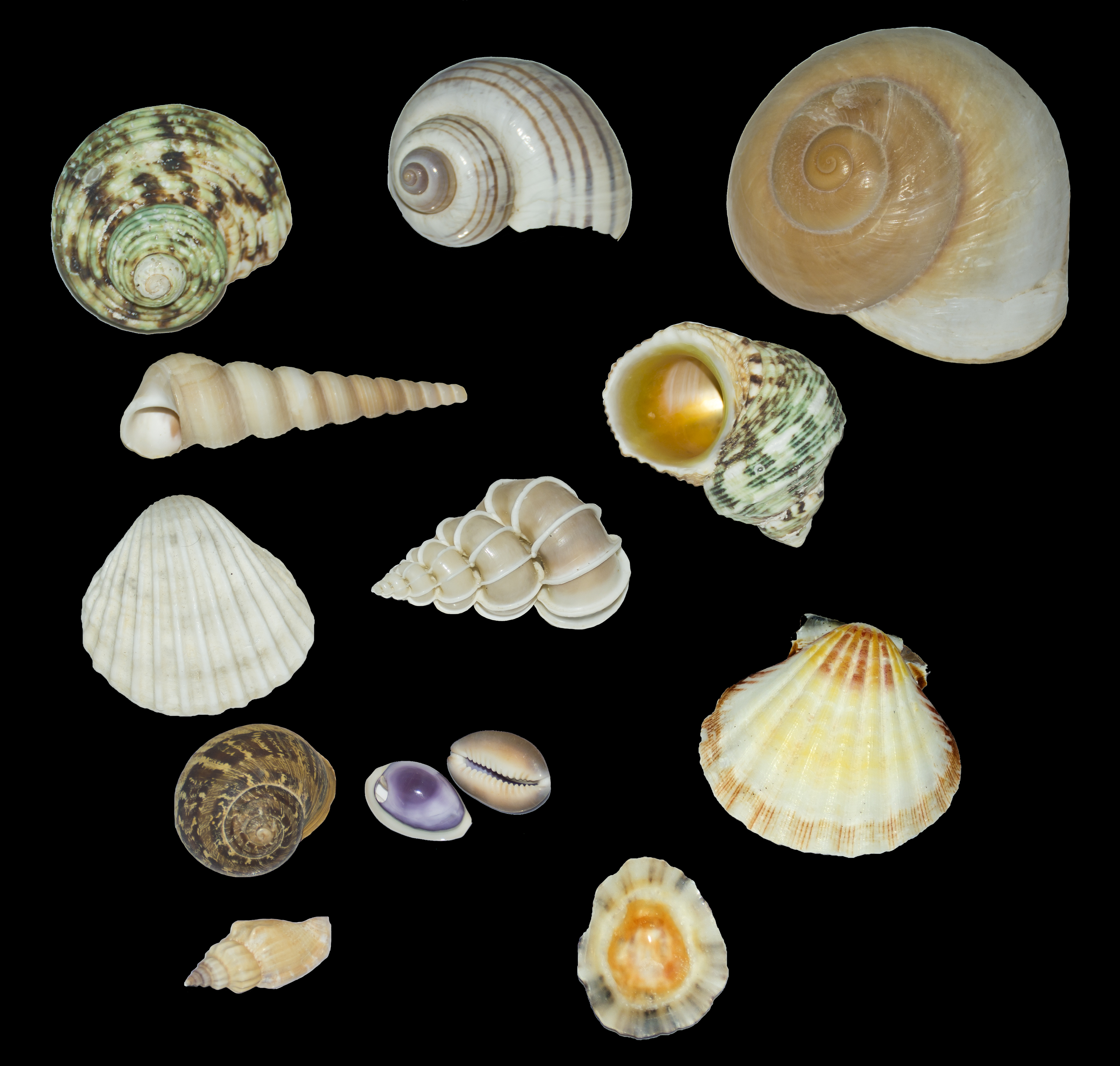 Part of my shells collection, including Garden Snail, Precious Wentletrap, Turbo snails, Turritella snail, Seashells and more